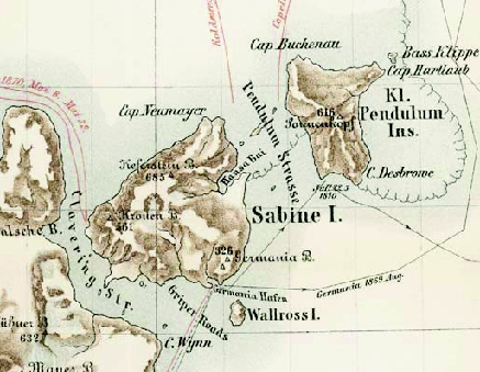 Map of the Pendulum Islands, 2nd German Polar Expedition 1869-70